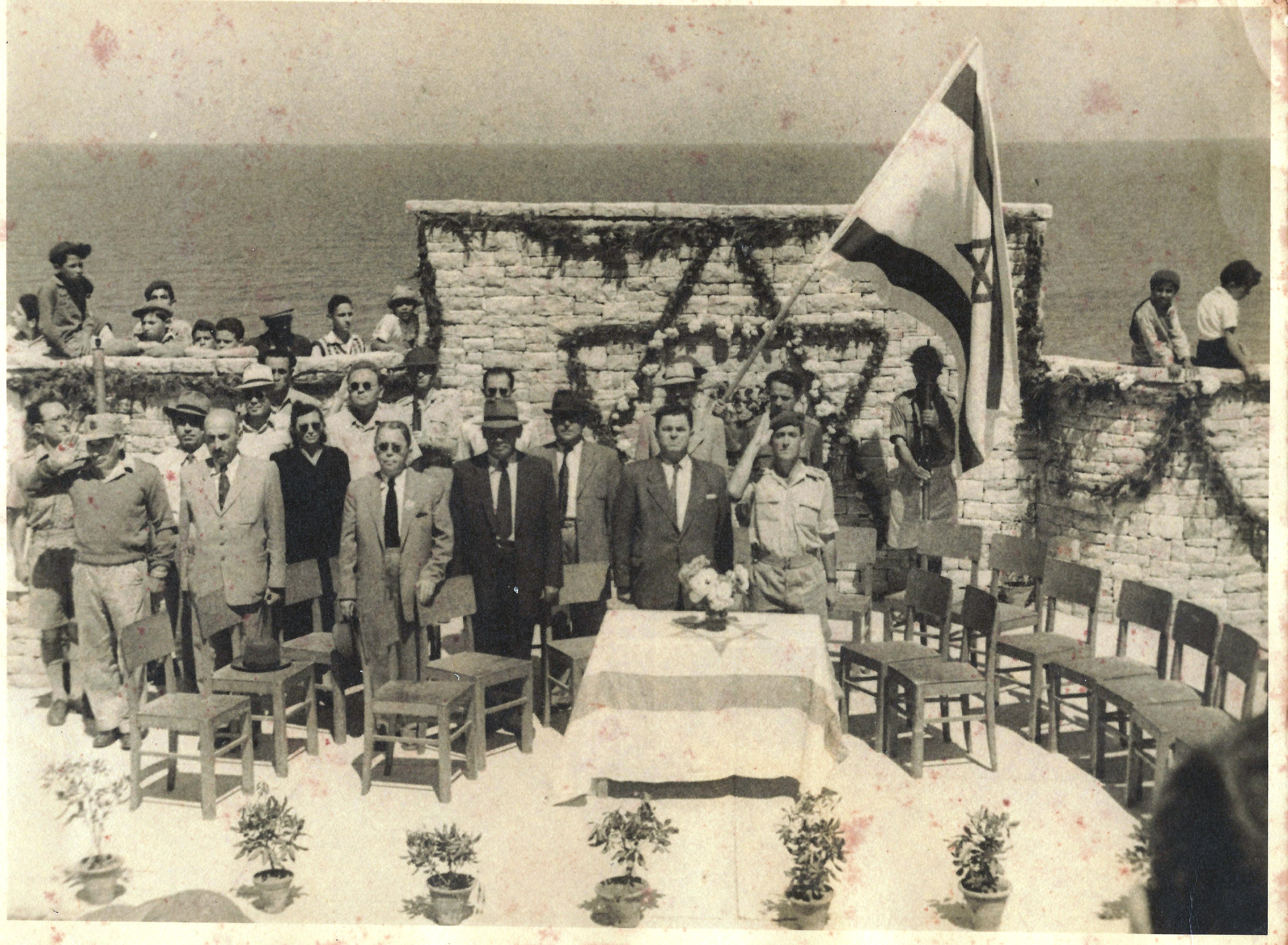 Moshe Shaked at 1949 celebrating one year of Israel independence